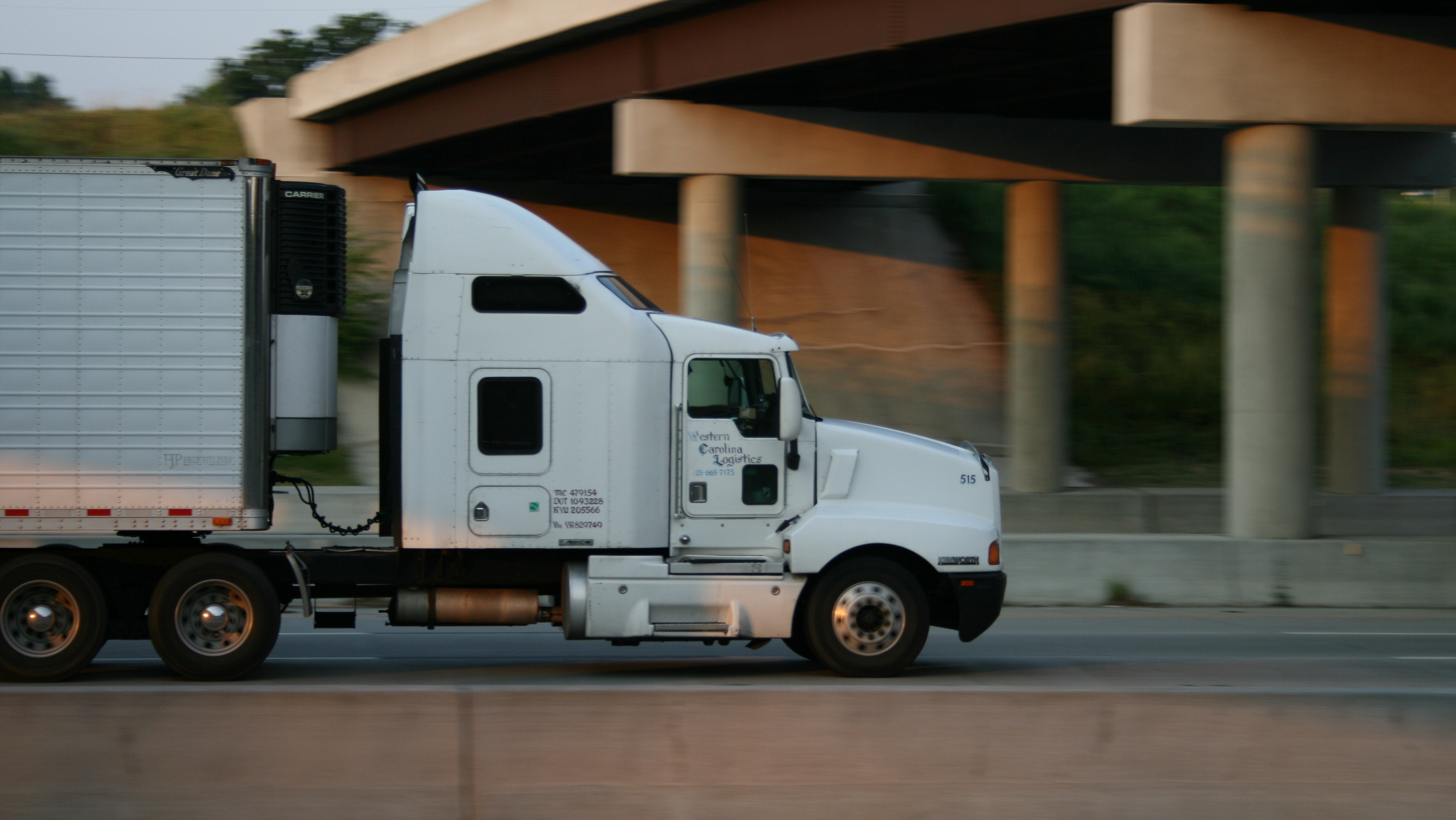 Kenworth truck about to pass under the Gregson St overpass on I-85 in Durham, North Carolina.